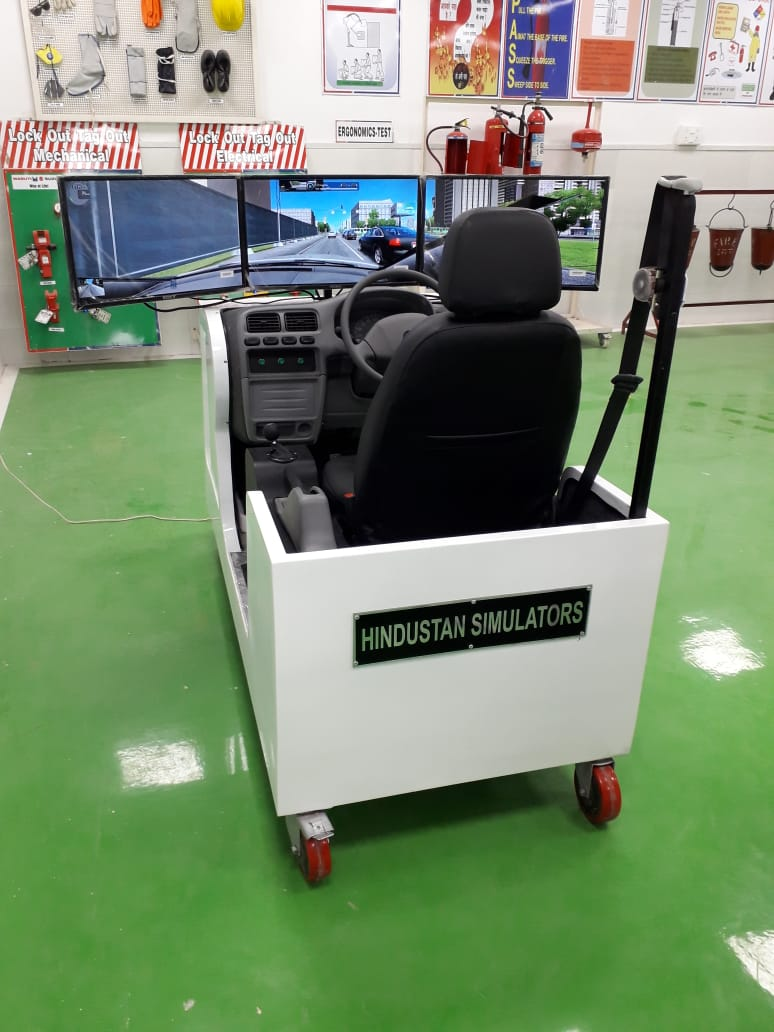 Simulation Training System for Car Driving includes all necessary elements to learn how to drive, from the beginning (initial driving training) to the end (advanced driving training).